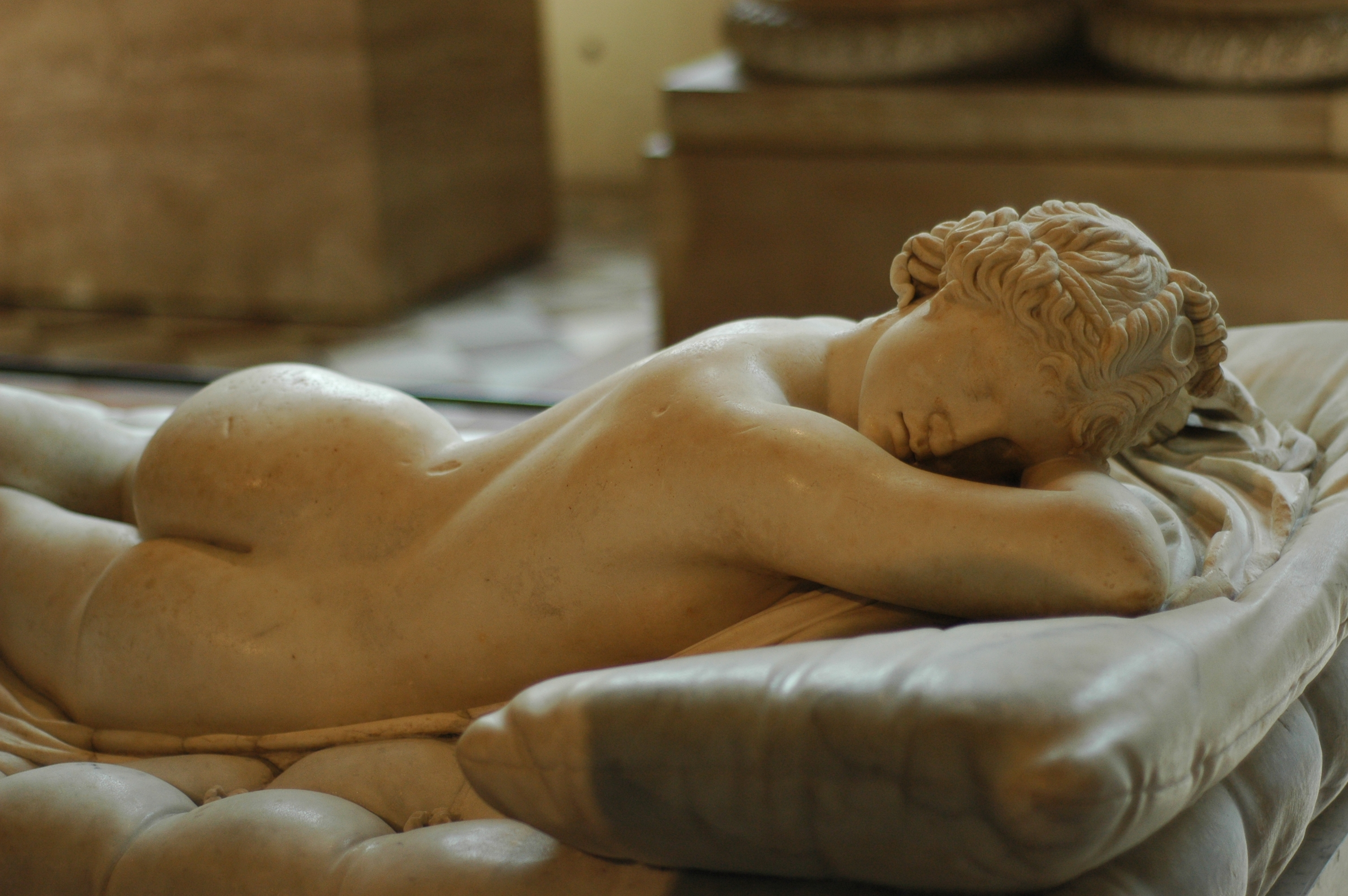 Sleeping Hermaphroditus. Hermaphroditus: Greek marble, Roman copy of the 2nd century CE after a Hellenistic original of the 2nd century BC, restored in 1619 by David Larique; mattress: Carrara marble, made by Gianlorenzo Bernini in 1619 on Cardinal Borghese's request.